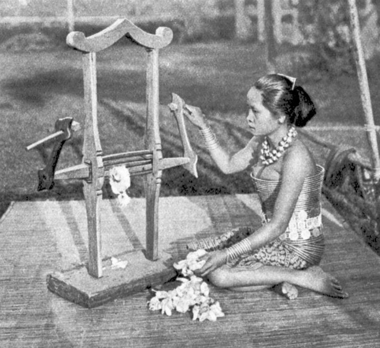 Cotton thread. To make thread the Iban woman puts a mass of cotton fibre in a mangle, which extracts the seeds while she pulls away the fibre